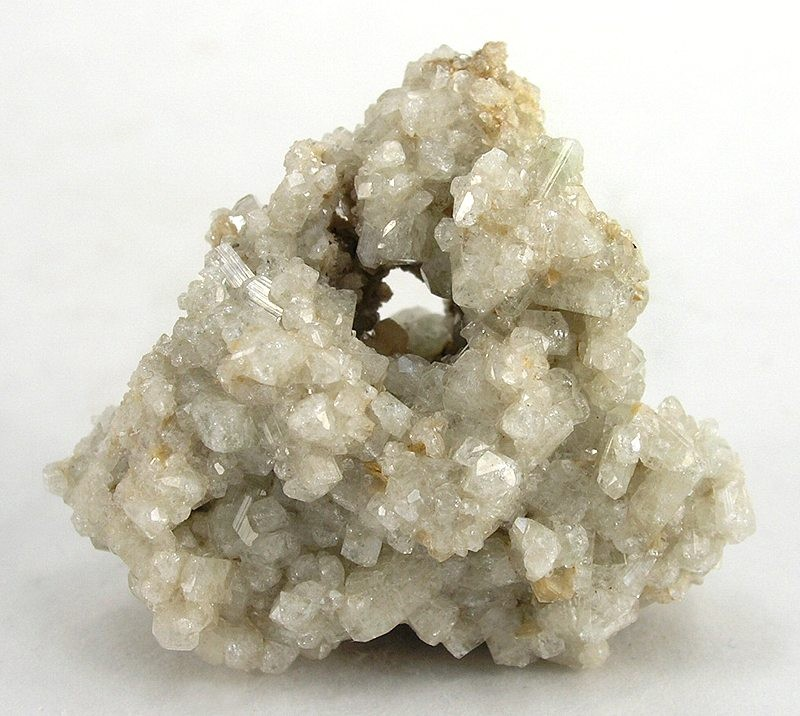 Hydroxylherderite Locality: Erongo Mountain, Usakos and Omaruru Districts, Erongo Region, Namibia (Locality at ) A rare locality specimen of hydroxylherderite, extremely rare for this locale, as featured in the recent Minerlogical Record article on this locality! 4.5 x 3.9 x 2.5 cm